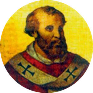 Portait of Pope Benedict V in the Basilica of Saint Paul Outside the Walls, Rome